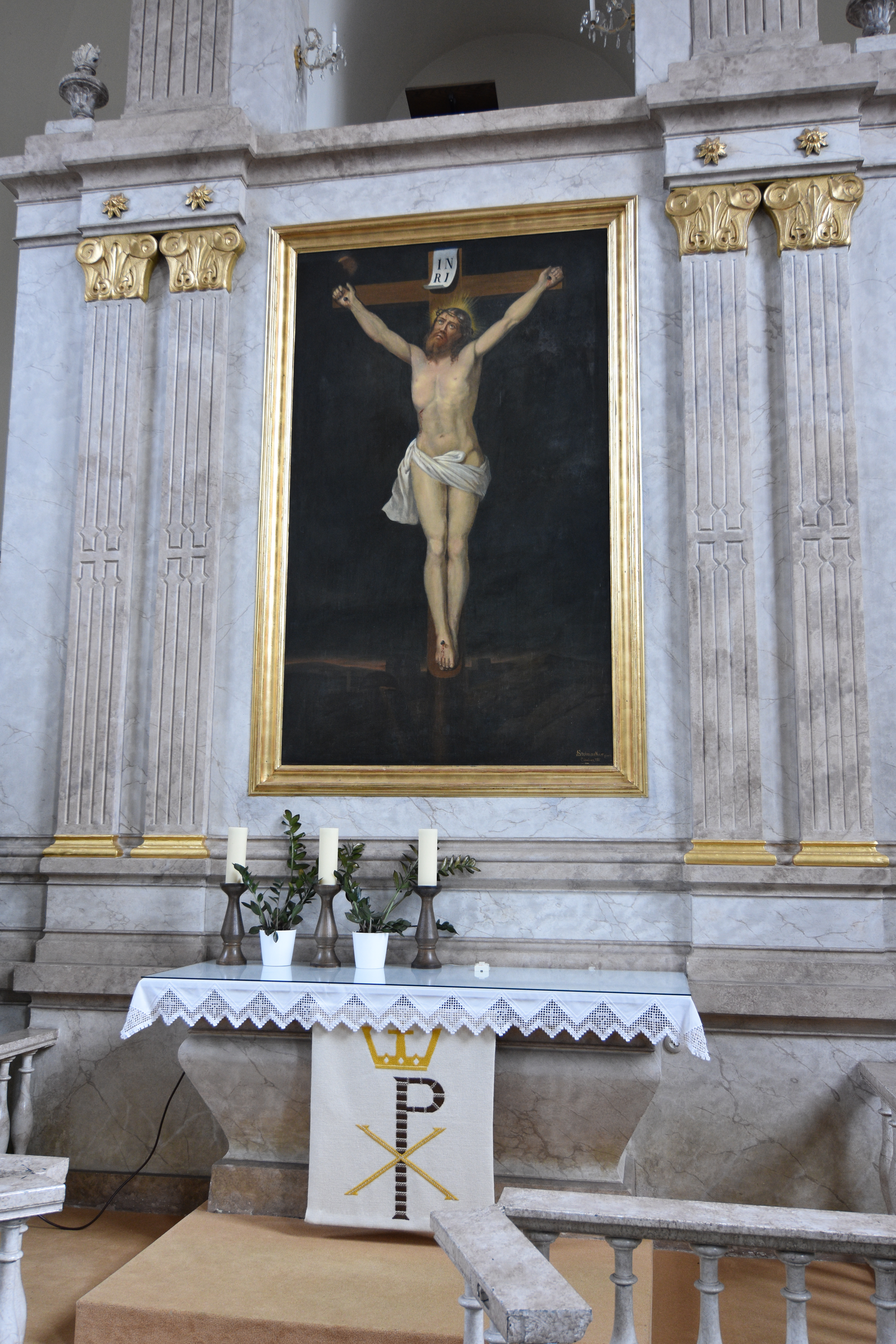 Evangelische Pfarrkirche Deutsch Kaltenbrunn - Interior